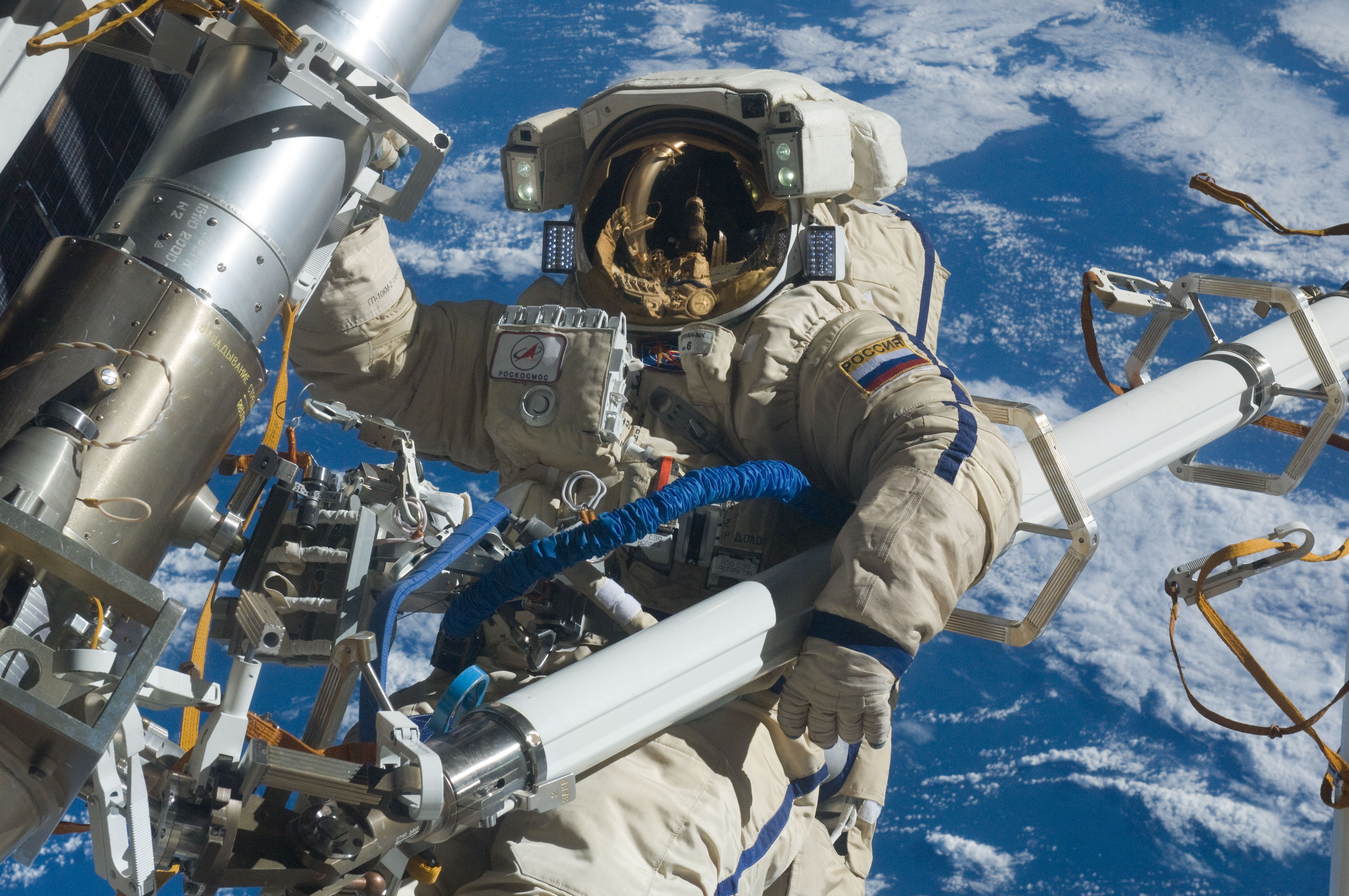 Russian cosmonaut Anton Shkaplerov, Expedition 30 flight engineer, participates in a session of extravehicular activity (EVA) to continue outfitting the International Space Station. During the six-hour, 15-minute spacewalk, Shkaplerov and Russian cosmonaut Oleg Kononenko (out of frame), flight engineer, moved the Strela-1 crane from the Pirs Docking Compartment to begin preparing the Pirs for its replacement next year with a new laboratory and docking module. The duo used another boom, the Strela-2, to move the hand-operated crane to the Poisk module for future assembly and maintenance work. Both telescoping booms extend like fishing rods and are used to move massive components outside the station. On the exterior of the Poisk Mini-Research Module 2 (MRM2), they also installed the Vinoslivost Materials Sample Experiment, which will investigate the influence of space on the mechanical properties of the materials. The spacewalkers also collected a test sample from underneath the insulation on the Zvezda Service Module to search for any signs of living organisms. Both spacewalkers wore Russian Orlan spacesuits bearing blue stripes and equipped with NASA helmet cameras.